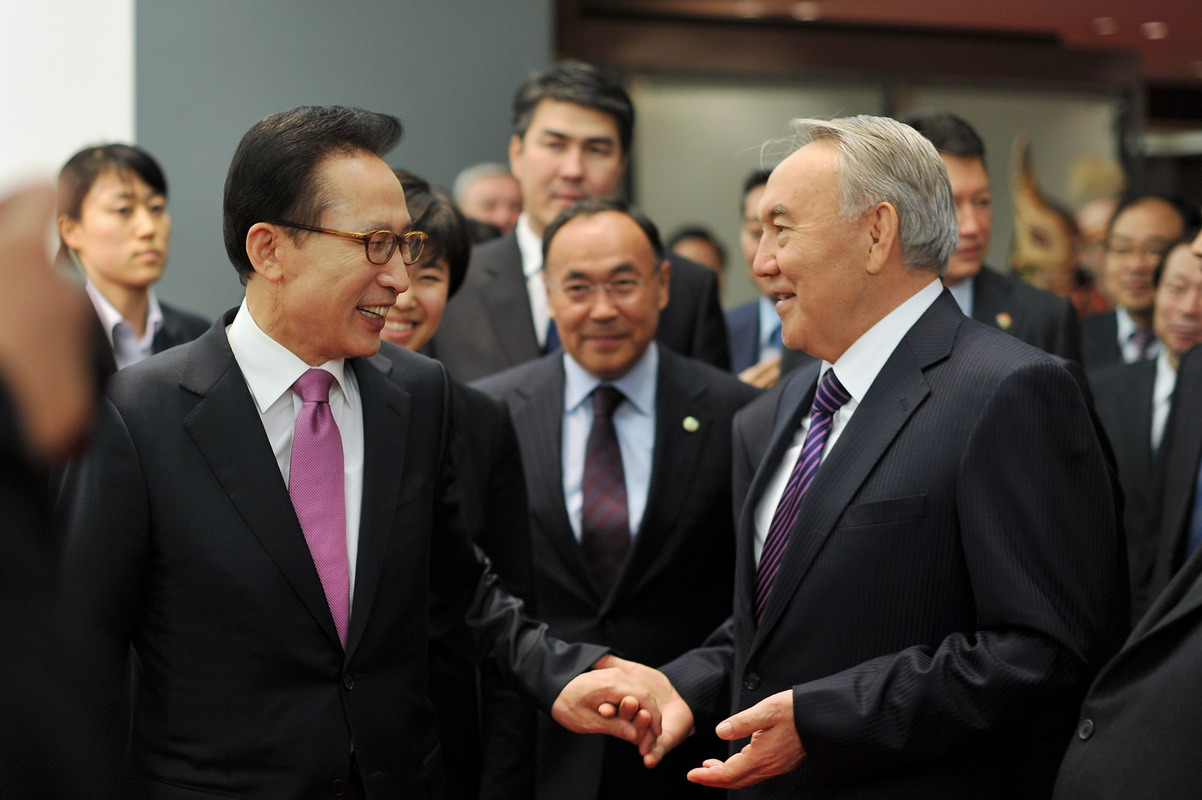 President Lee and President of Kazakhstan took part in solemn ceremony of opening of Year of Kazakhstan in Seoul Hoam Art Hall.